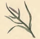 Stainton’s Natural History of the Tineina (1855–1873): Coleophora odorariella mined leaf of “Serratula cyanoides” with attached larva-case